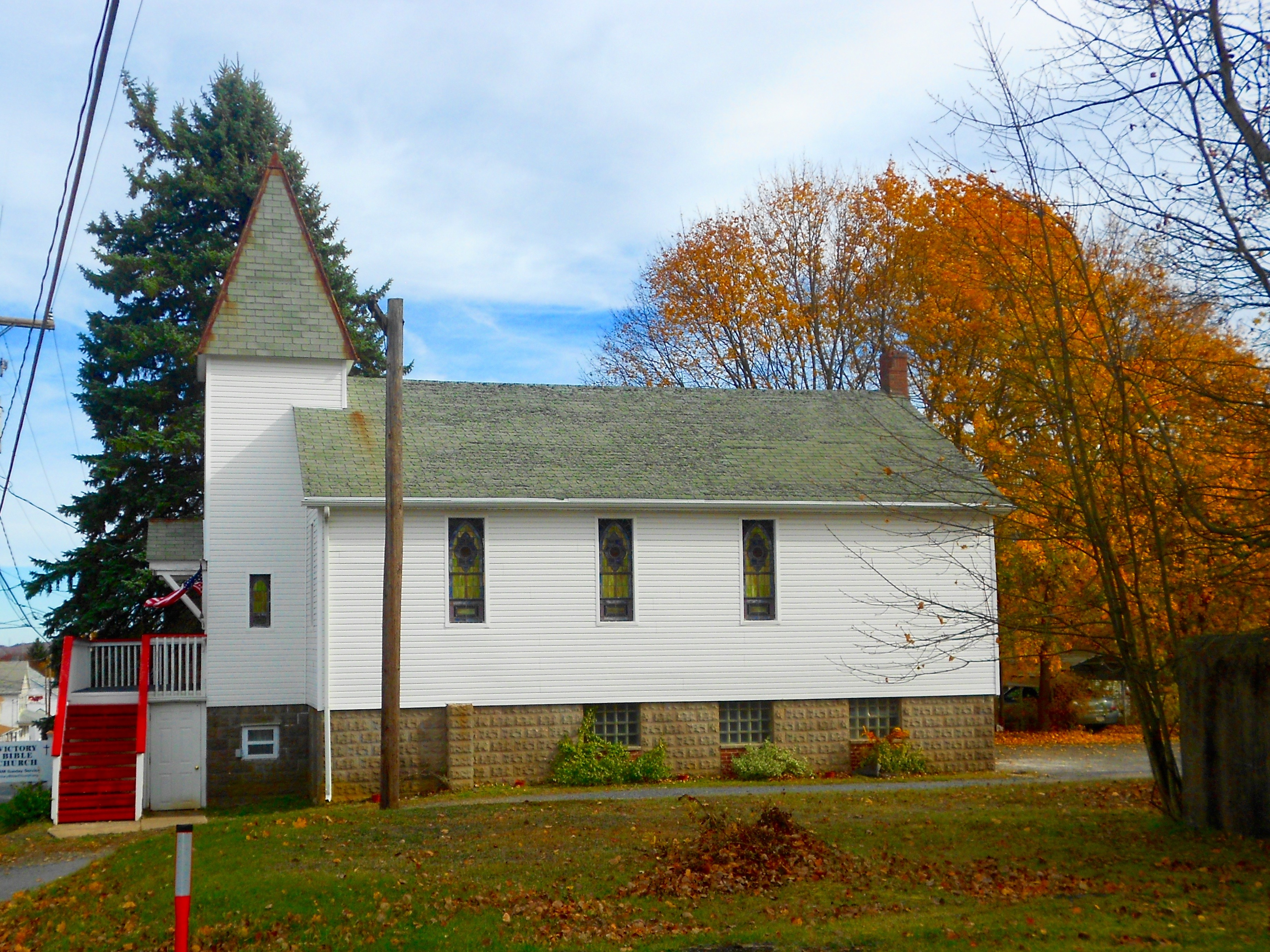 Victory Bible Church in Junedale, Banks Township, Carbon County, Pennsylvania. The church's website says it is independent and uses only the Bible to determine the church's positions.